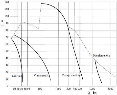 Debito ir slėgio aukščio ribos skirtingiems darbo ratams